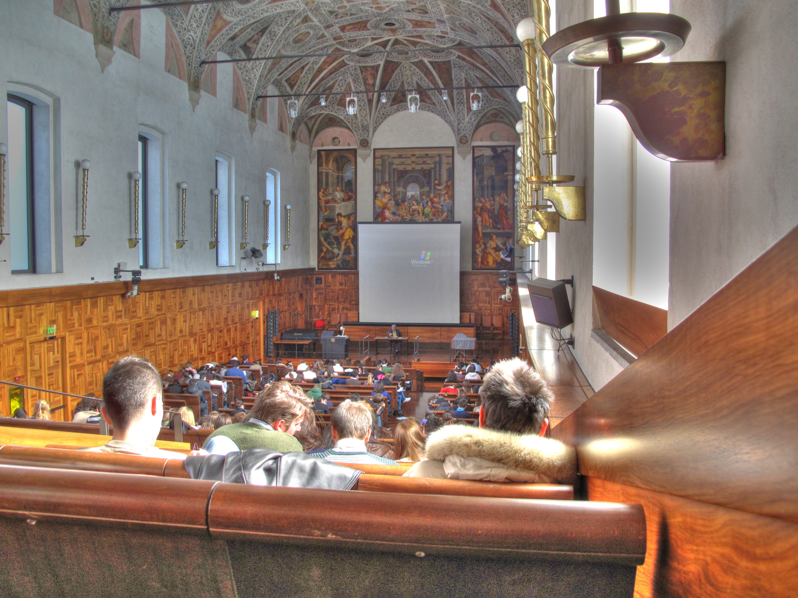 Work in progress - Aula Magna dell'università Cattolica del Sacro Cuore (milano) (bracketing exp -2 , 0 , + 1,9) + layer colorize + warm filters See also the Crypta of the Aula Magna